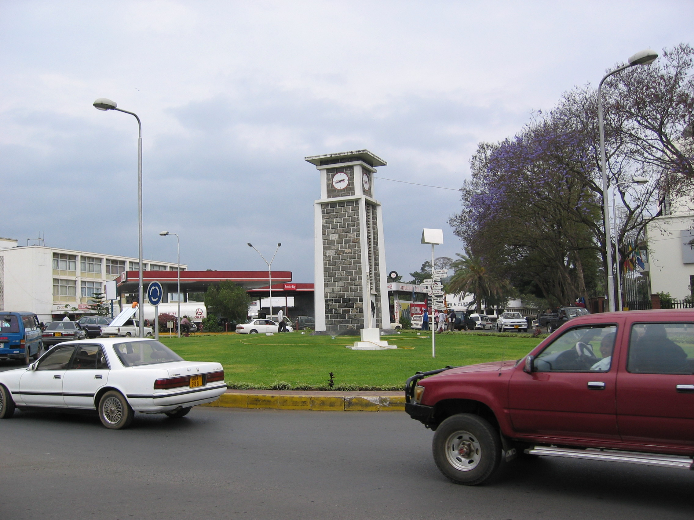 Arusha clocktower